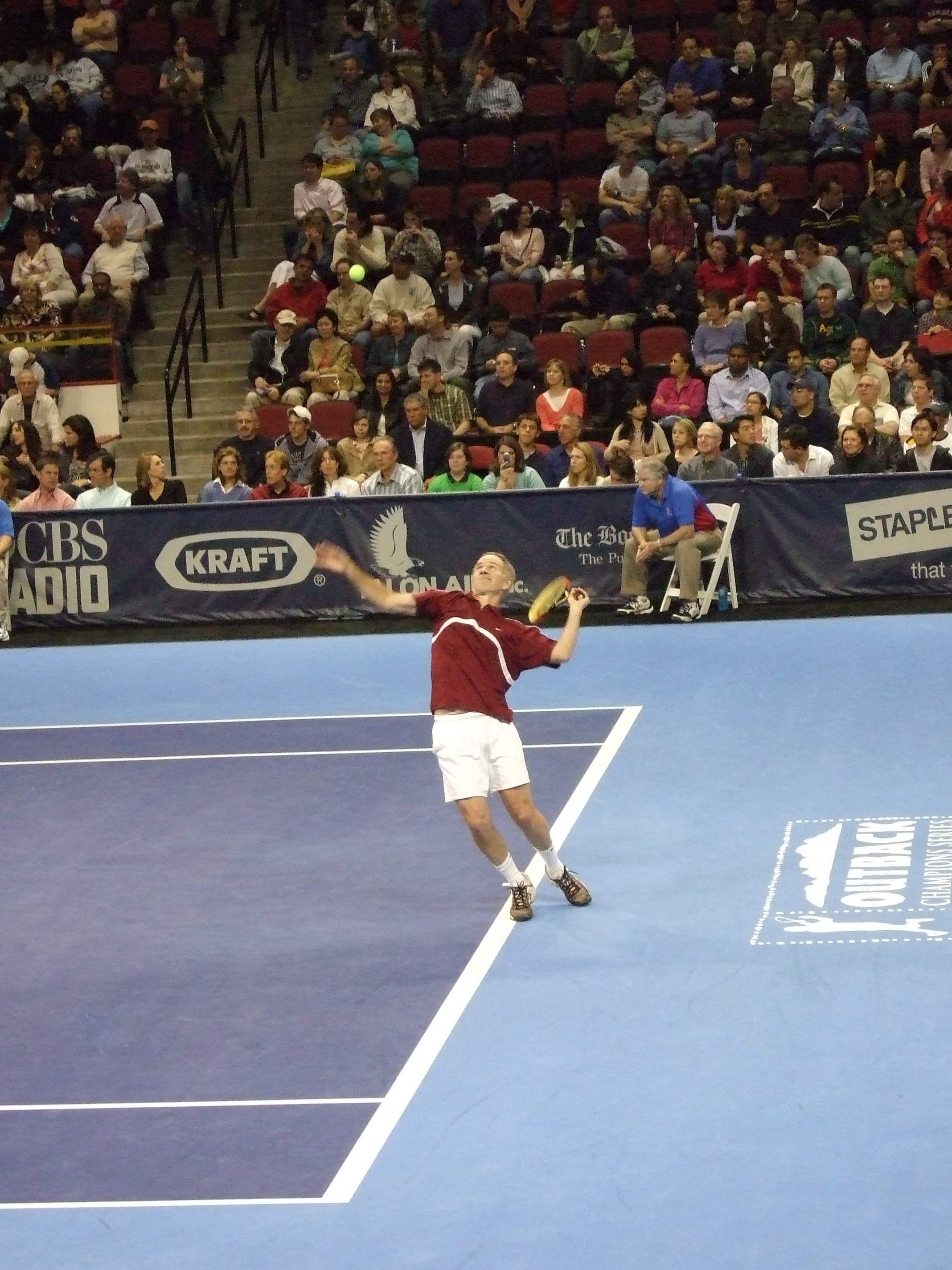 John McEnroe Serving. Champions Cup Boston